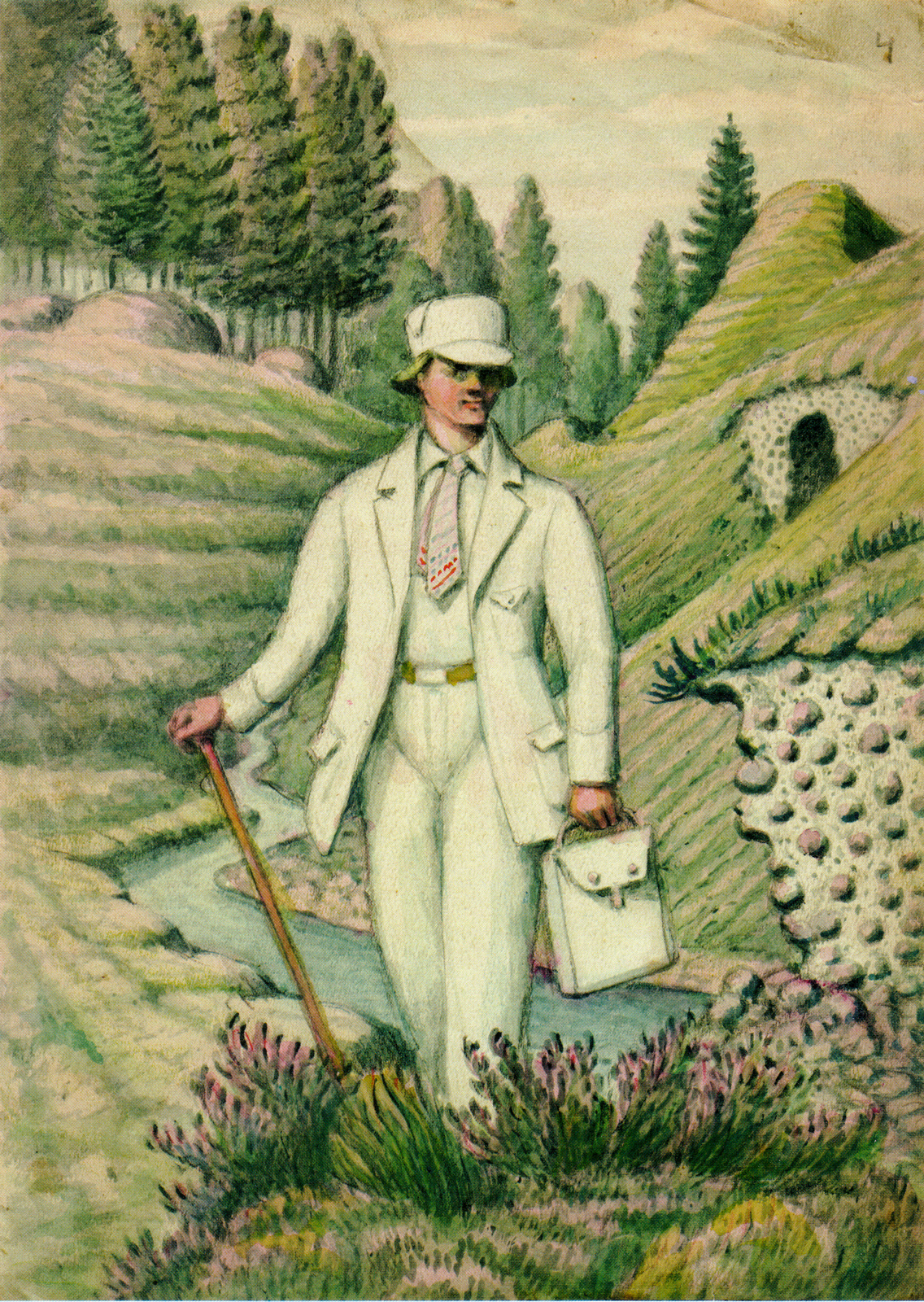 Belarusian painter Jazep Drazdovič researching site of ancient settlement. Self-portrait. 1930-1947